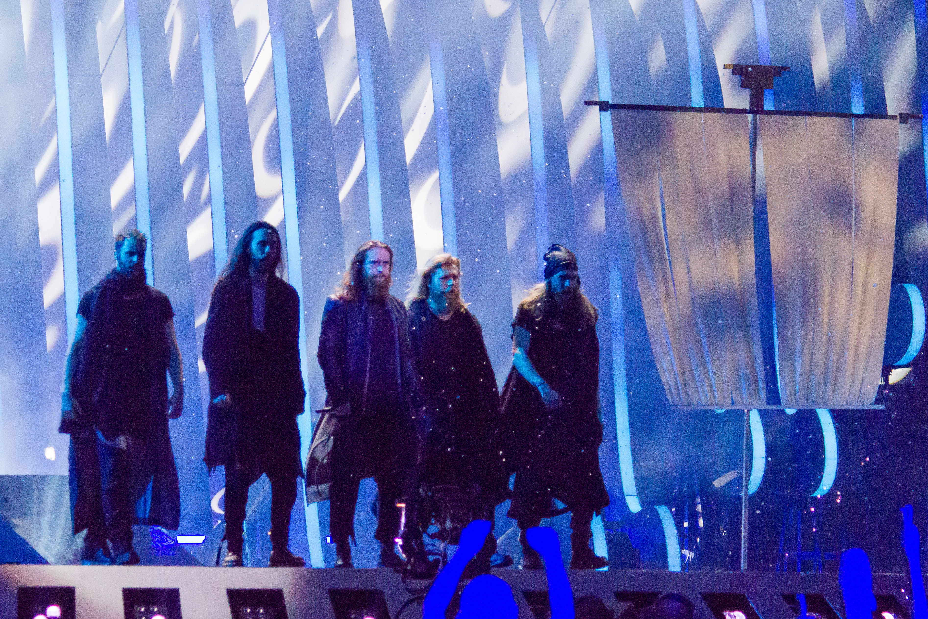 Rasmussen at the 2018 Grand Final allocation draw